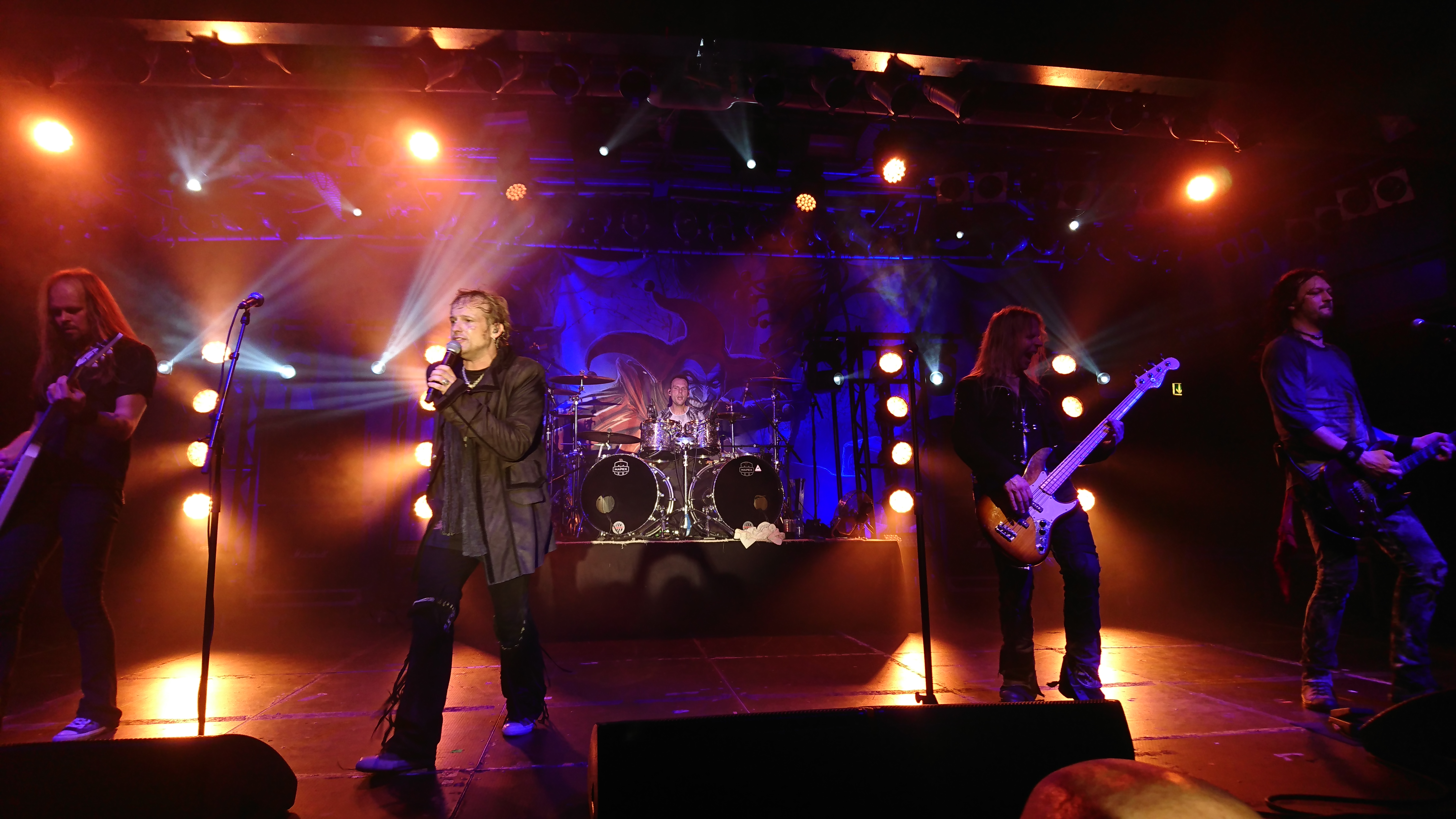 Edguy in Backstage Munich, Germany, during their 25 Years - The Best of the Best Monuments Tour 2017